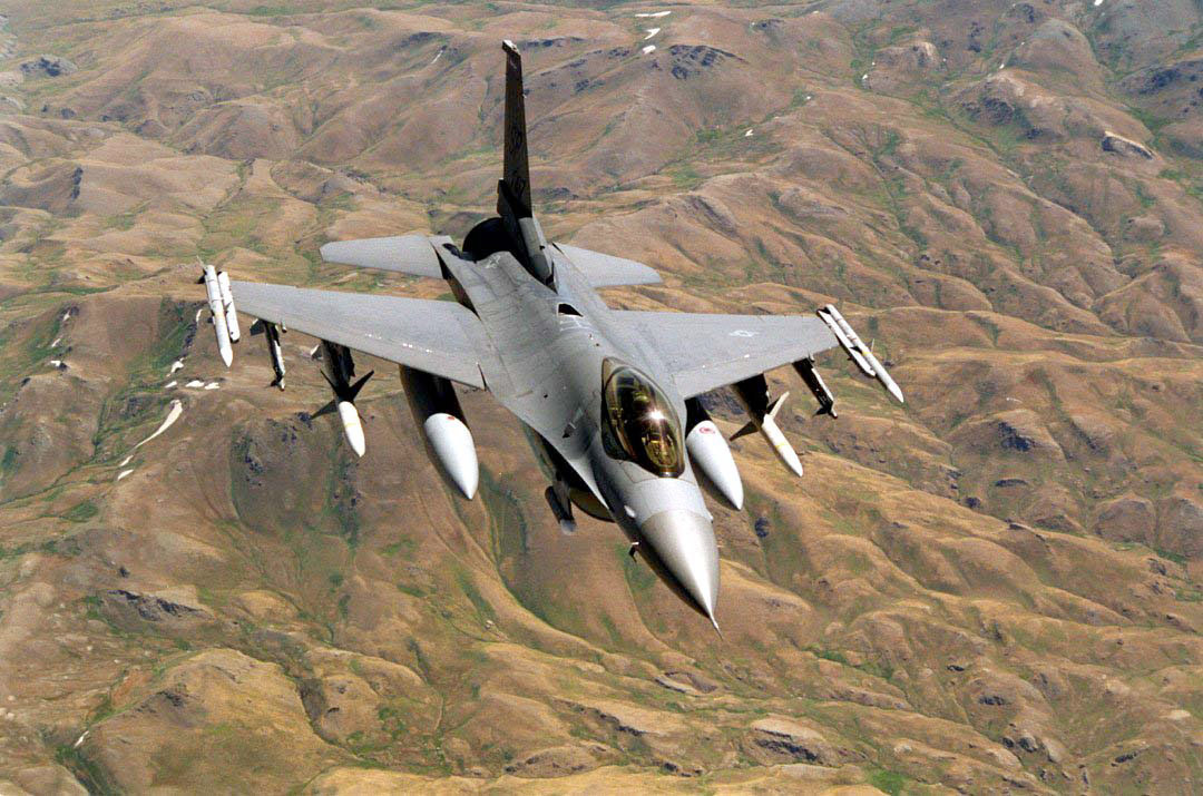 A U.S. Air Force F-16C Fighting Falcon conducts a routine patrol over Northern Iraq on Dec. 28, 1998, in support of Operation Northern Watch. Northern Watch is the coalition enforcement of the no-fly-zone over Northern Iraq.